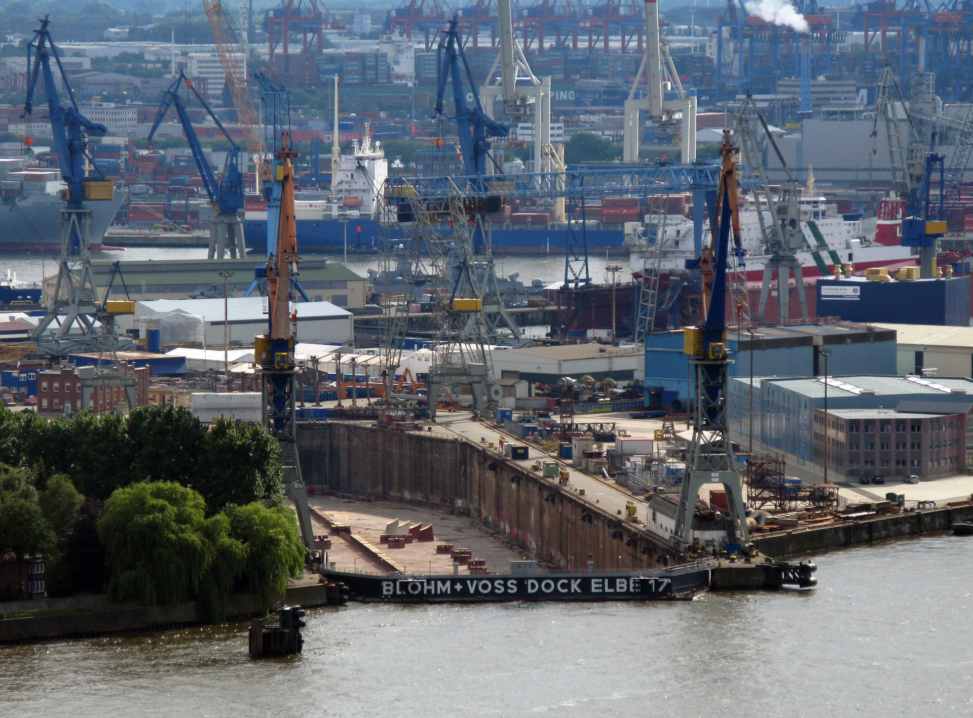 Empty drydock "Elbe 17"